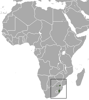 Rough-haired Golden Mole (Chrysospalax villosus) range